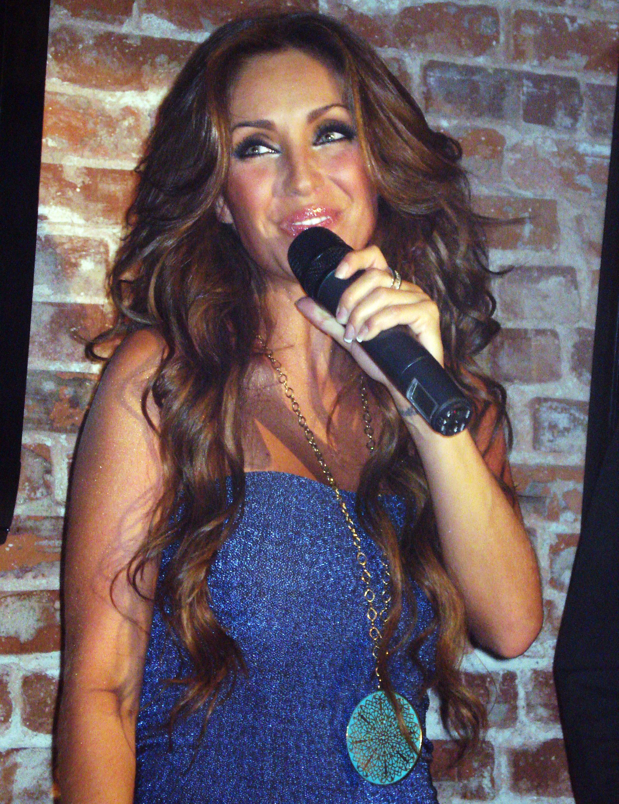 Anahí Puente performing in Los Angeles, November 2009.